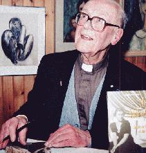 Father Anselme Chiasson of Cheticamp, Nova Scotia photographed in Moncton, New Brunswick on a book tour for Anna Malenfant : gloire de l'Acadie et du Canada in 1999.